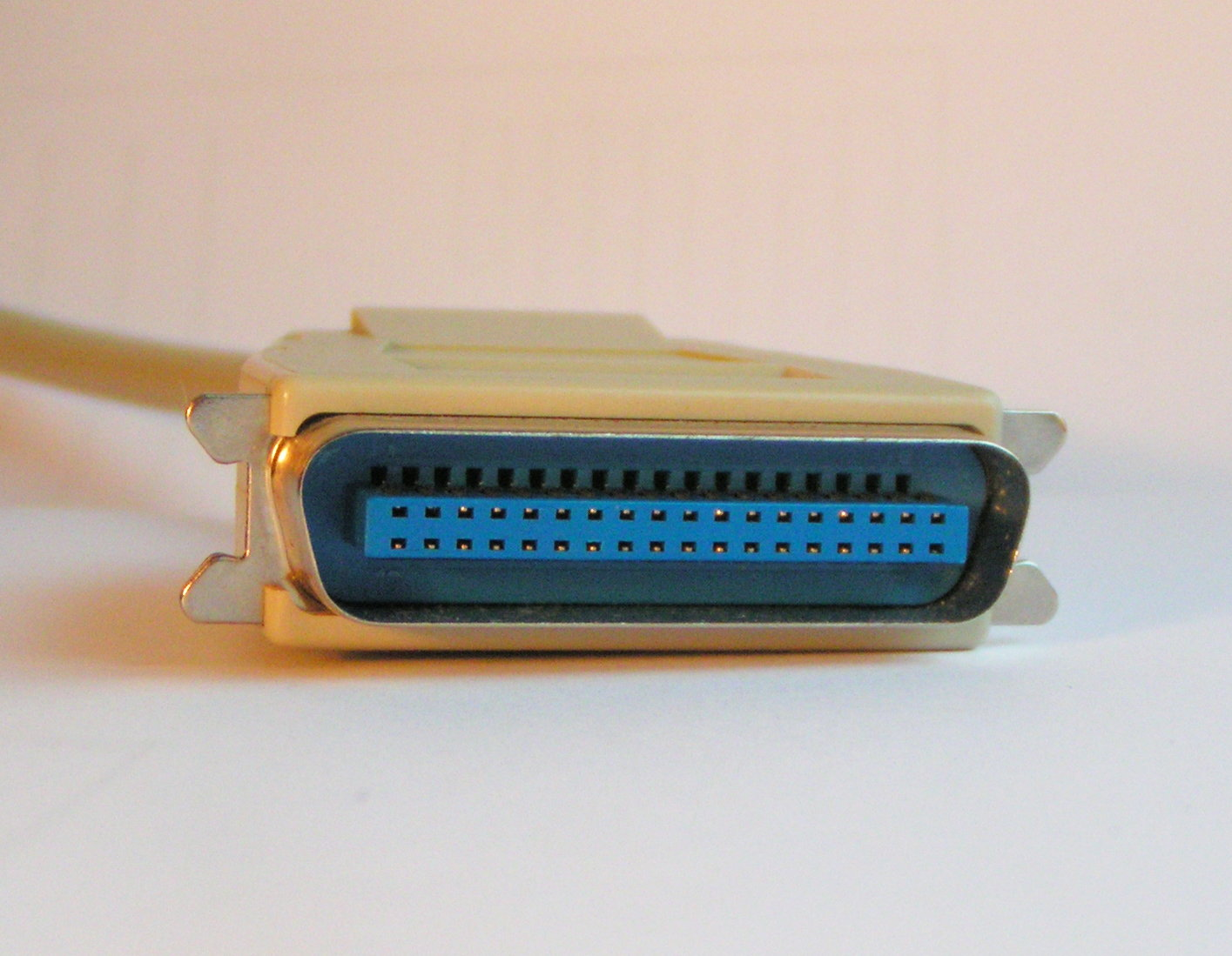 IEEE 1284 36 pin plughead